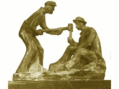 Leoš Kubíček - Stonecutters